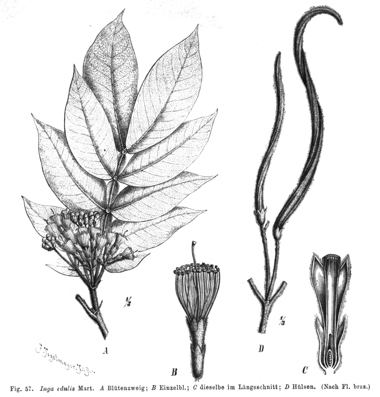 Illustration from book